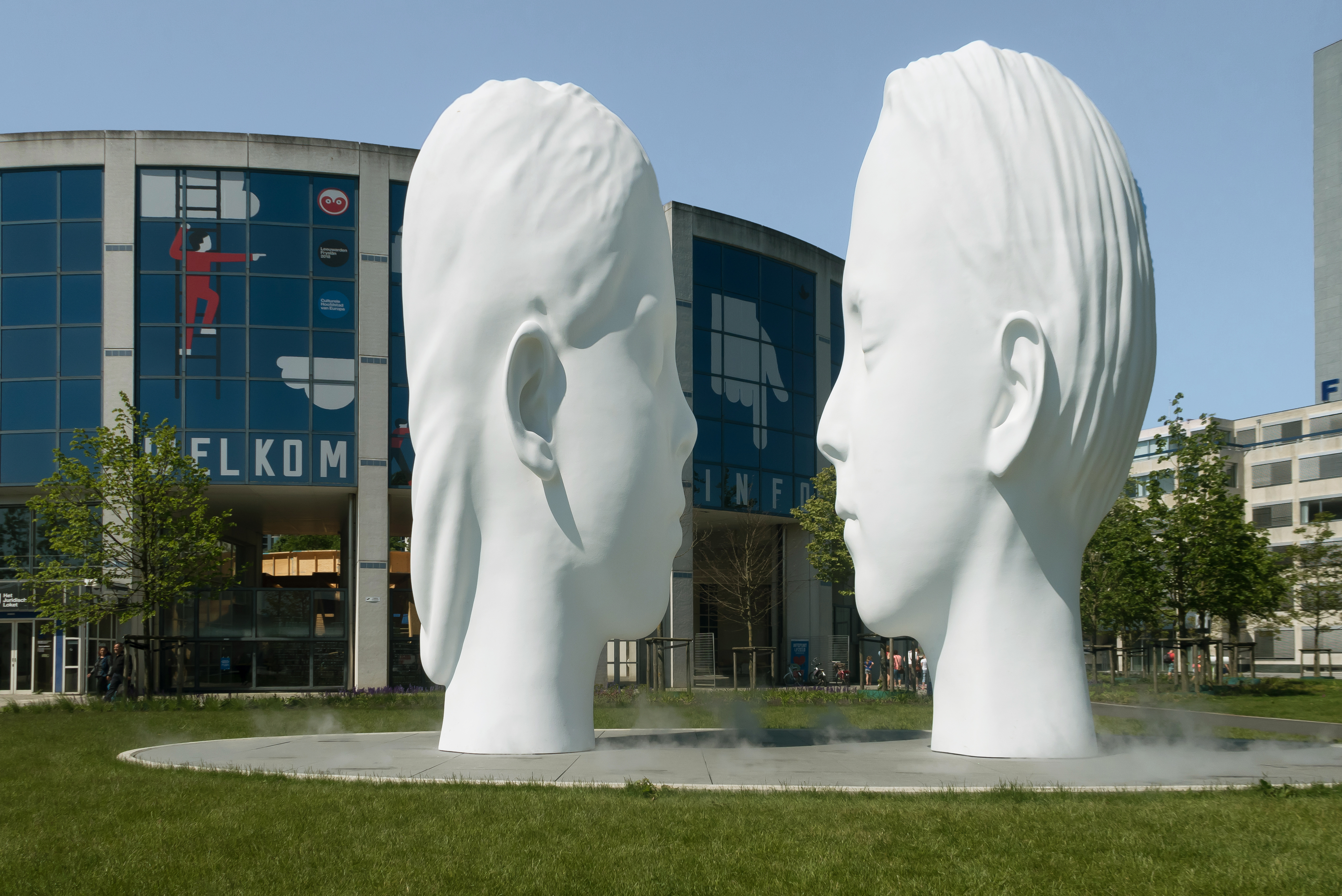 Leeuwarden, sculpture Love Fountain designed by Jaume Plensa at the Stationsplein